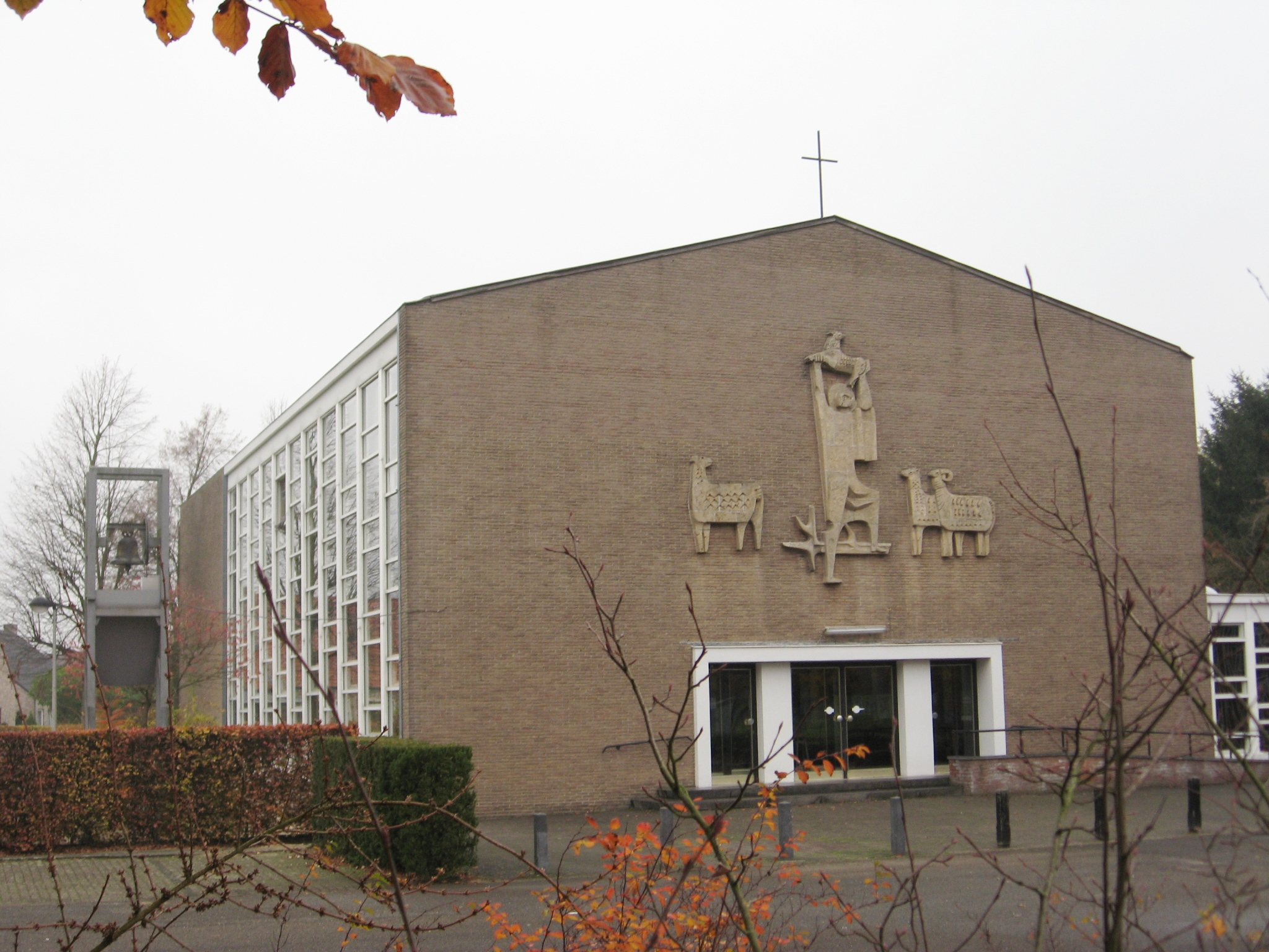 Church of Salvator Mundi in Hamont (Hamont-LO), Hamont-Achel, Limburg, Belgium